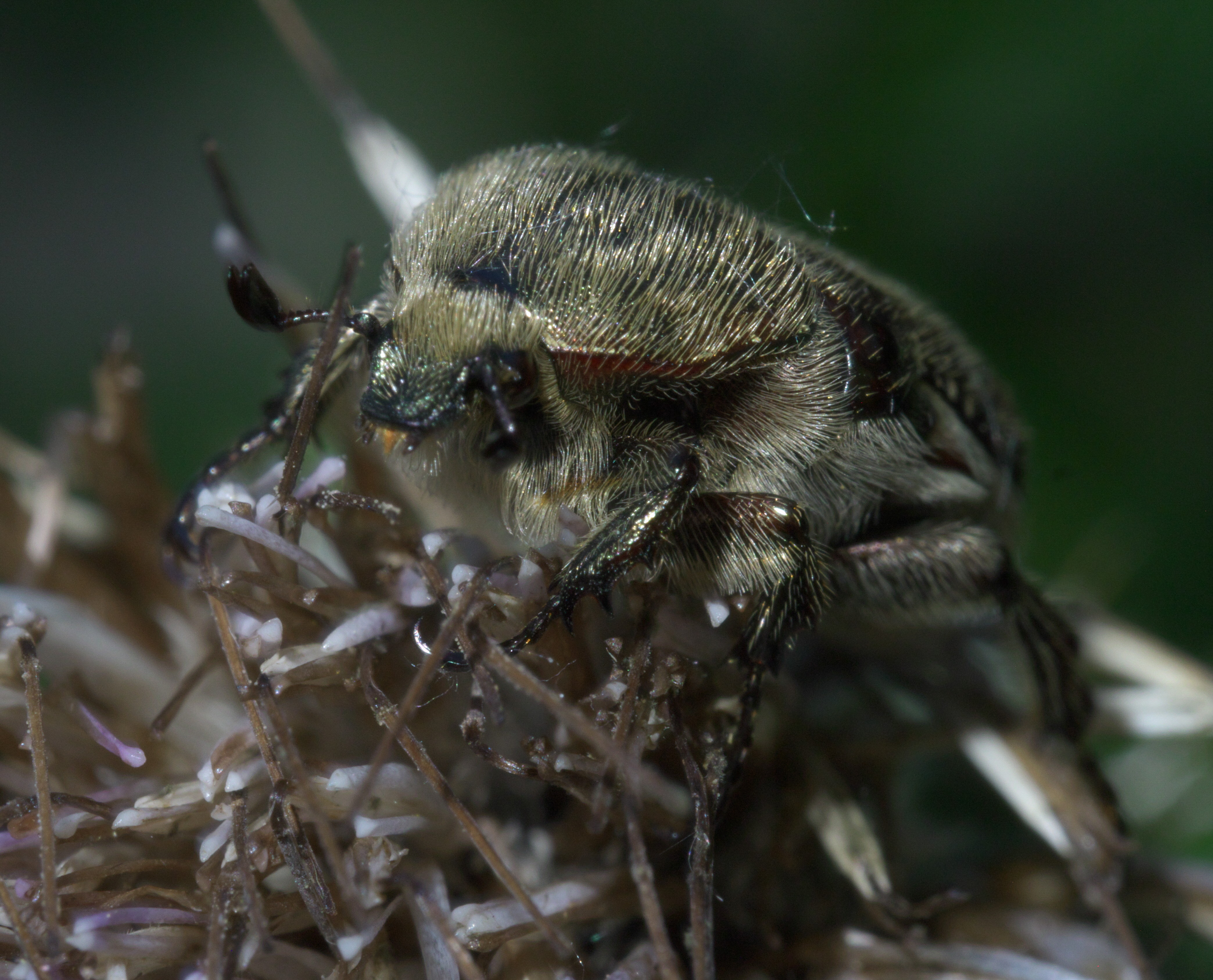 Euphoria sepulcralis, dark flower scarab, ID Confidence: 90